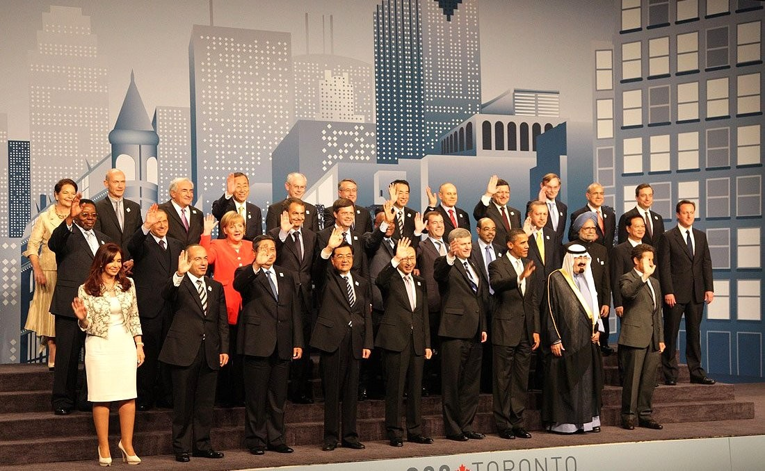 en: Participants of G-20 summit in Toronto [President of Russia Dmitry Medvedev at G-20 summit in Toronto]